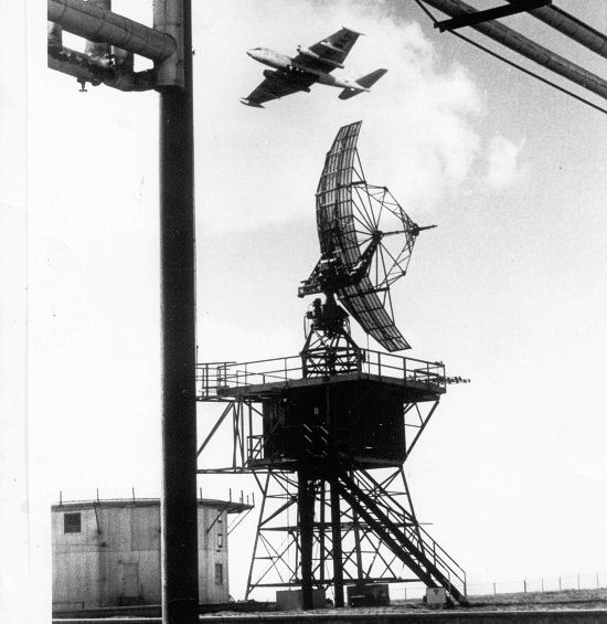 B-57 of the 4713th Radar Evaluation Squadron, with radar tower, in the U.S.